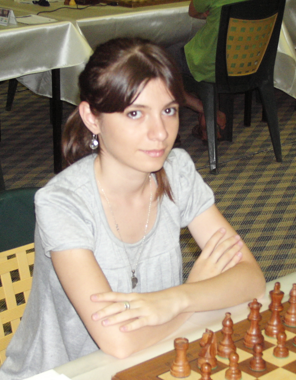 Khayala Isgandarova (Xəyalə İsgəndərova) Azerbaijan, at the 2008 World Junior Chess Championship in Gaziantep, Turkey.